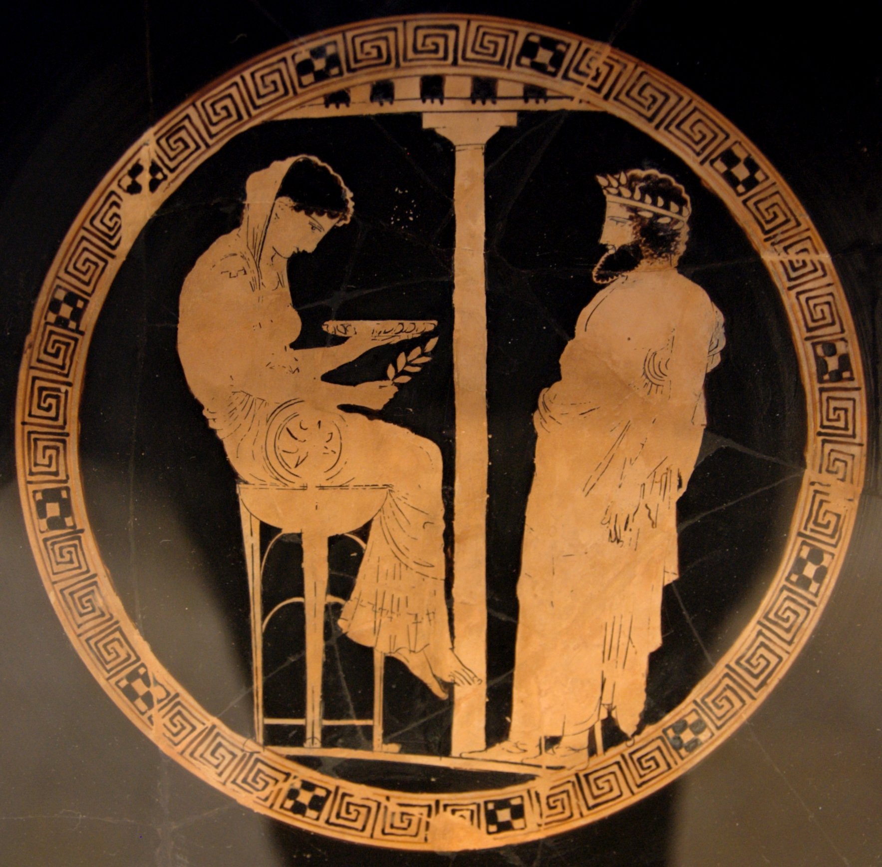 Themis and Aegeus. Attic red-figure kylix, 440–430 BC. From Vulci.